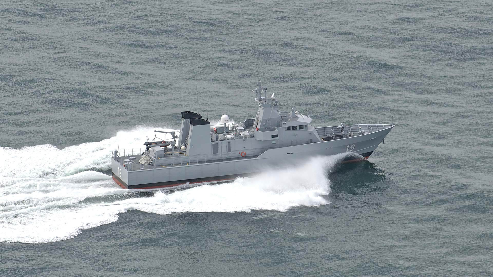 KDB Syafaat during her sea trials off Germany in late 2000s.